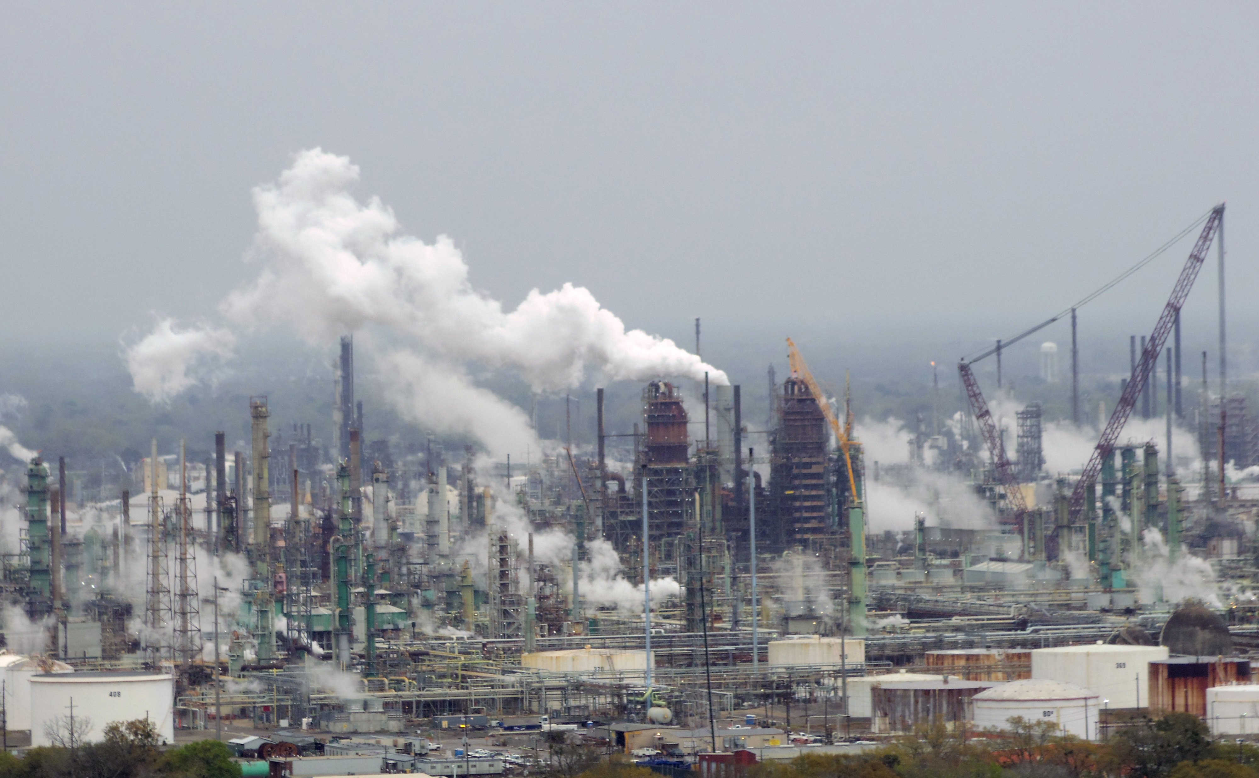 Exxon Mobil Refinery in Baton Rouge, Louisiana, seen from the top of the Louisiana State Capitol.